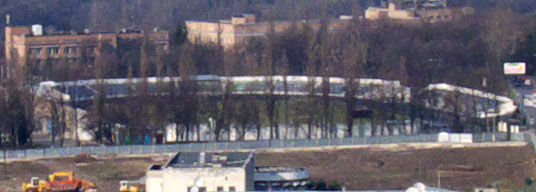 Dynamo Stadium in Kharkiv.